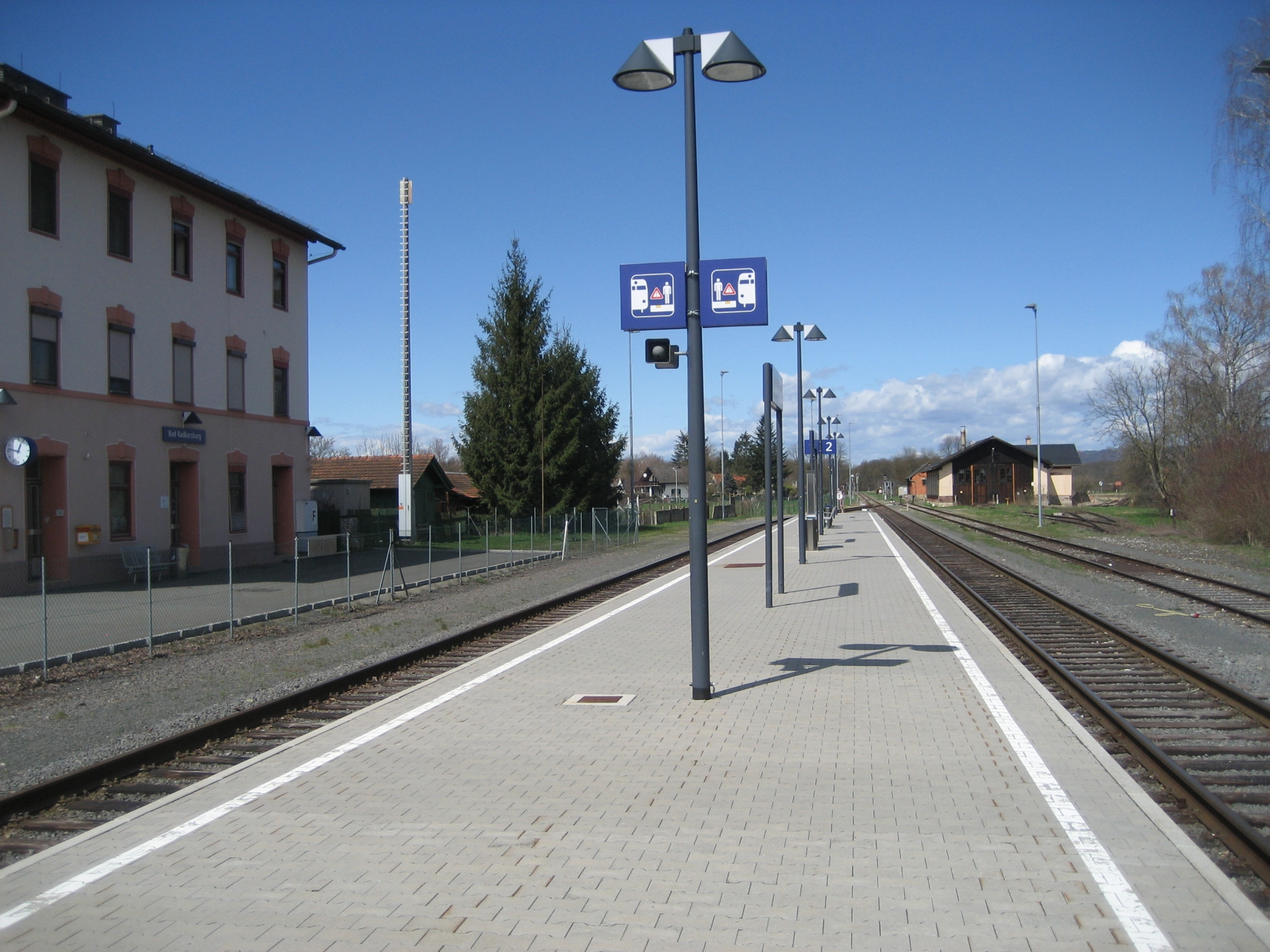 train station Bad Radkersburg in Styria